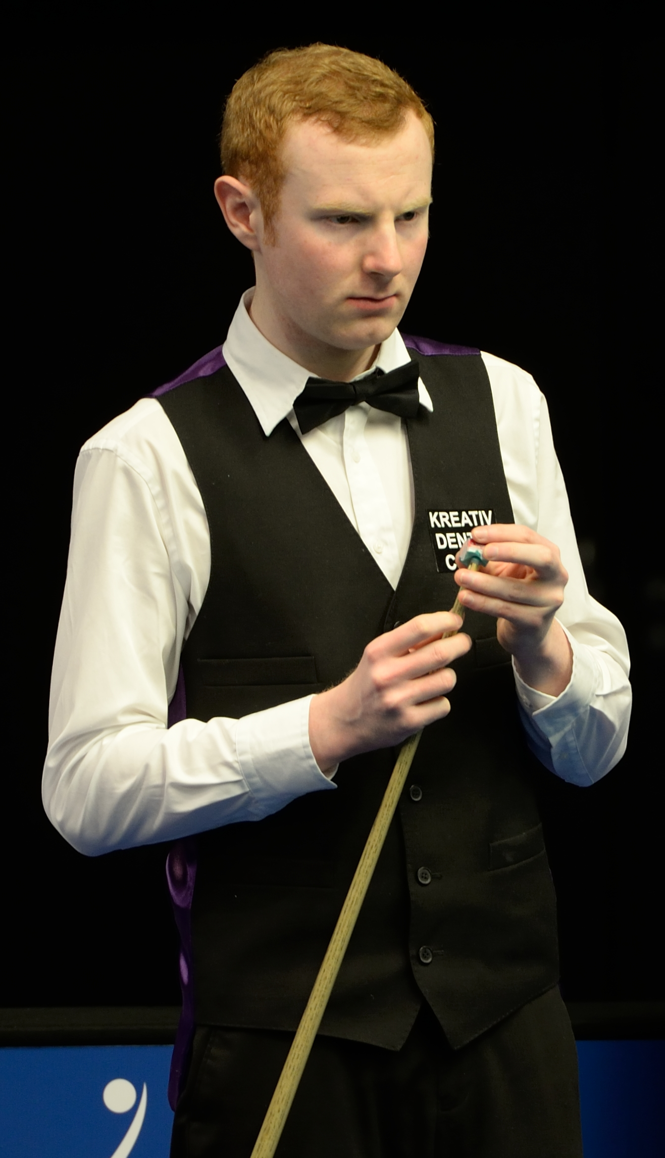 Picture taken in Berlin during the Snooker German Masters in 2015. Anthony McGill.